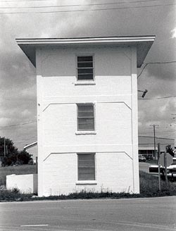 US Naval Ordnance Testing Facility Control Tower, Topsail Beach (Pender County, North Carolina) Photo from the National Register of Historic Places collection This image or media file contains material based on a work of a National Park Service employee, created as part of that person's official duties. As a work of the U.S. federal government, such work is in the public domain. See the NPS website and NPS copyright policy for more information.